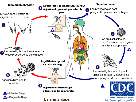 This is an illustration of the life cycle of Leishmania spp., the causal agents of leishmaniasis. For a complete description of the life cycle of Leishmania spp., the causal agents of leishmaniasis, select the link below the image or paste the following address in your address bar